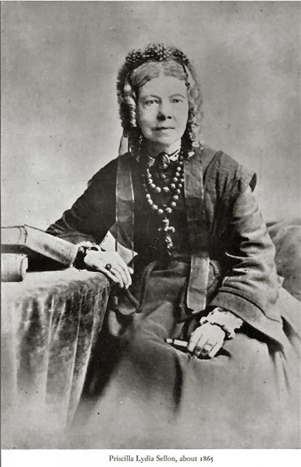 SELLON, PRISCILLA LYDIA (1821–1876), foundress of Anglican sisterhoods